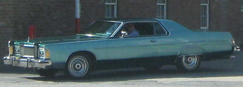 1973-1978 Mercury Marquis photographed in Hancock, Maryland, USA.